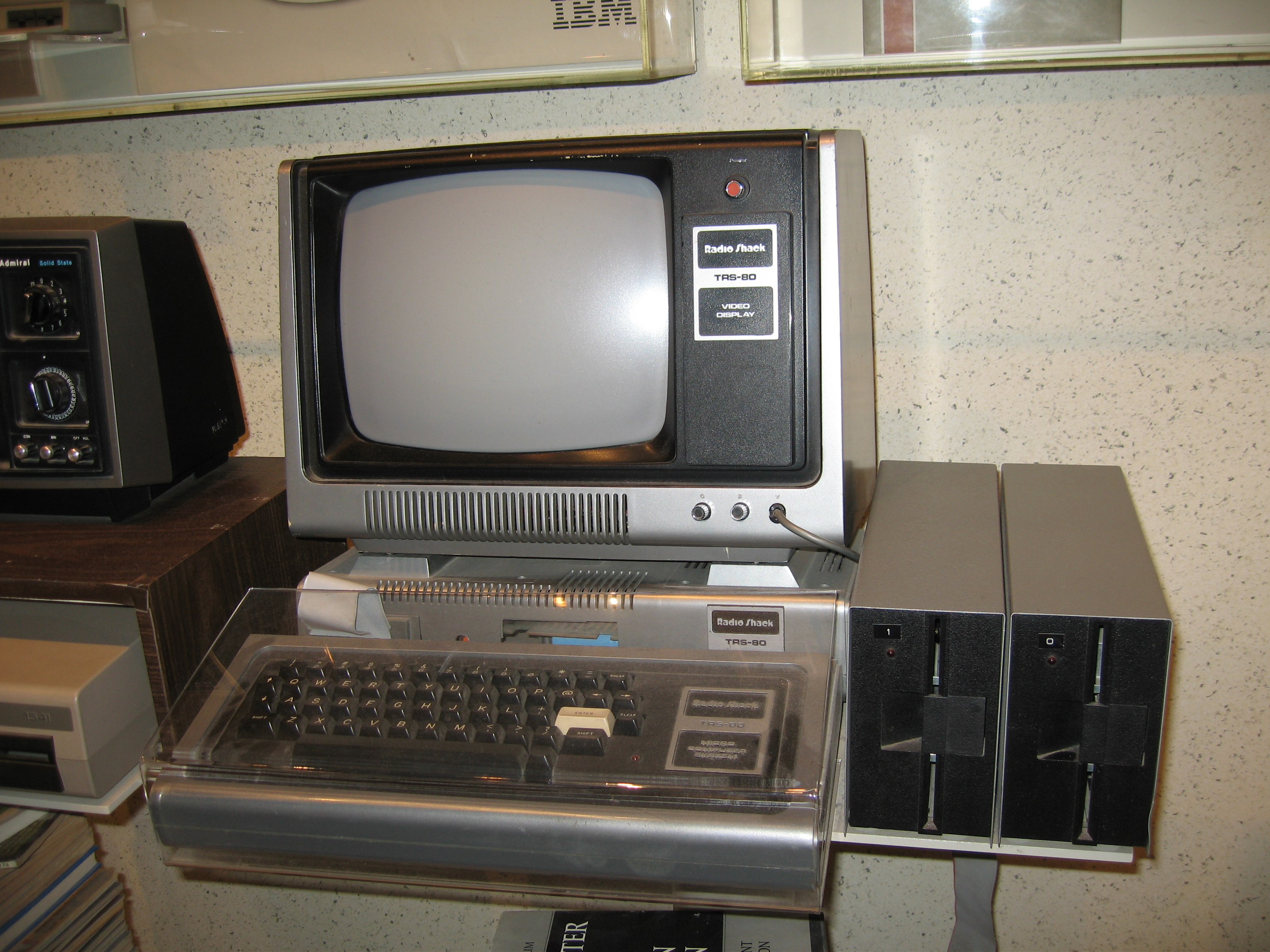 A TRS-80 Model I with monitor and two 5" 1/4 disk drives.